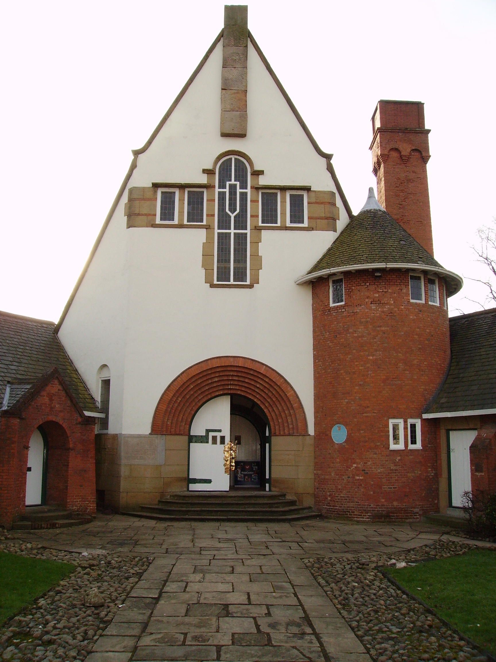 Edgar Wood Centre - view of the entrance